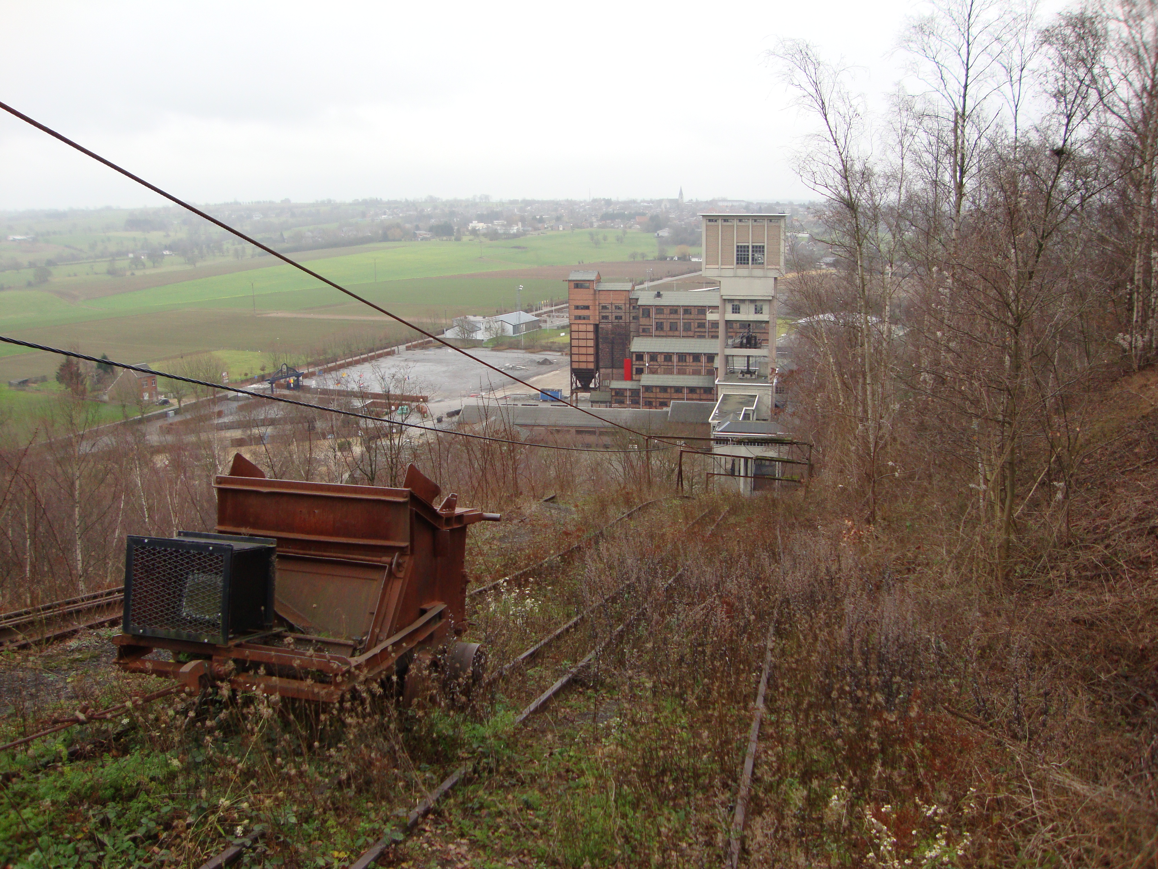 Blegny coal mine in Blegny (Belgium) viewed from the spoil tip.